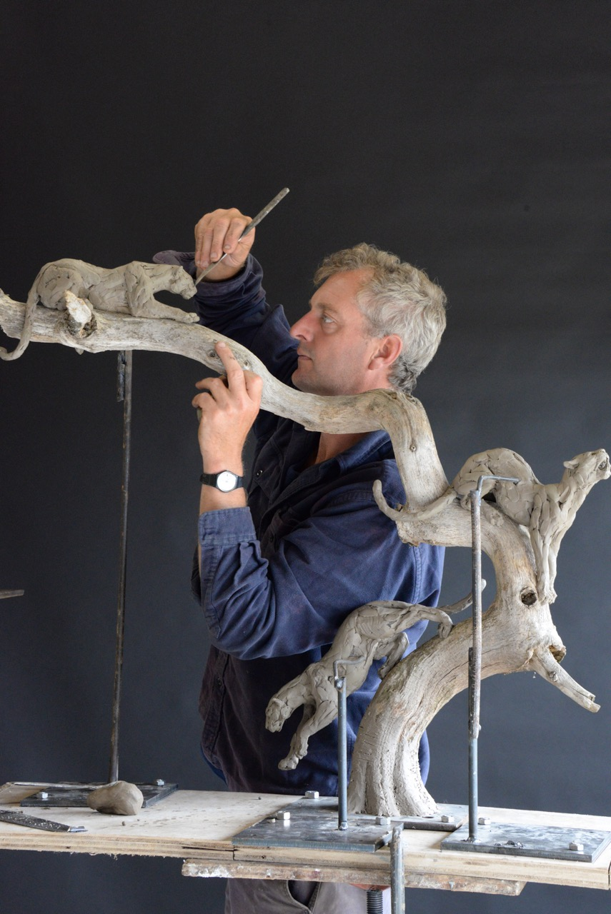 Sculptor Hamish Mackie working on a bronze sculpture of Leopards in a Tree